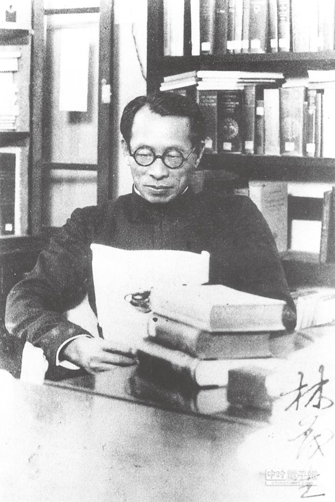 Lin Mosei as the Dean of Faculty of Arts of National Taiwan University